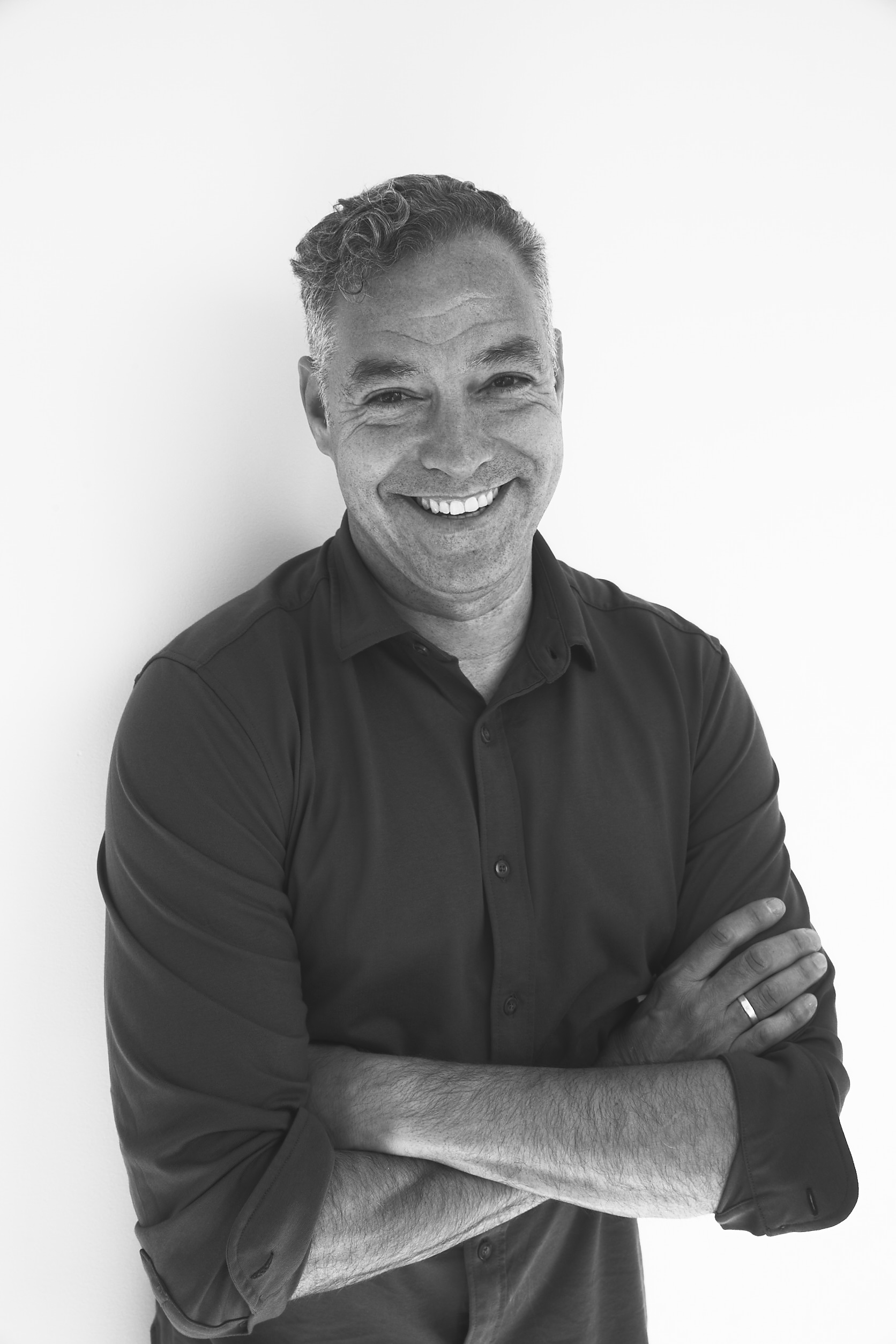 Headshot of investigative reporter Ian Urbina.